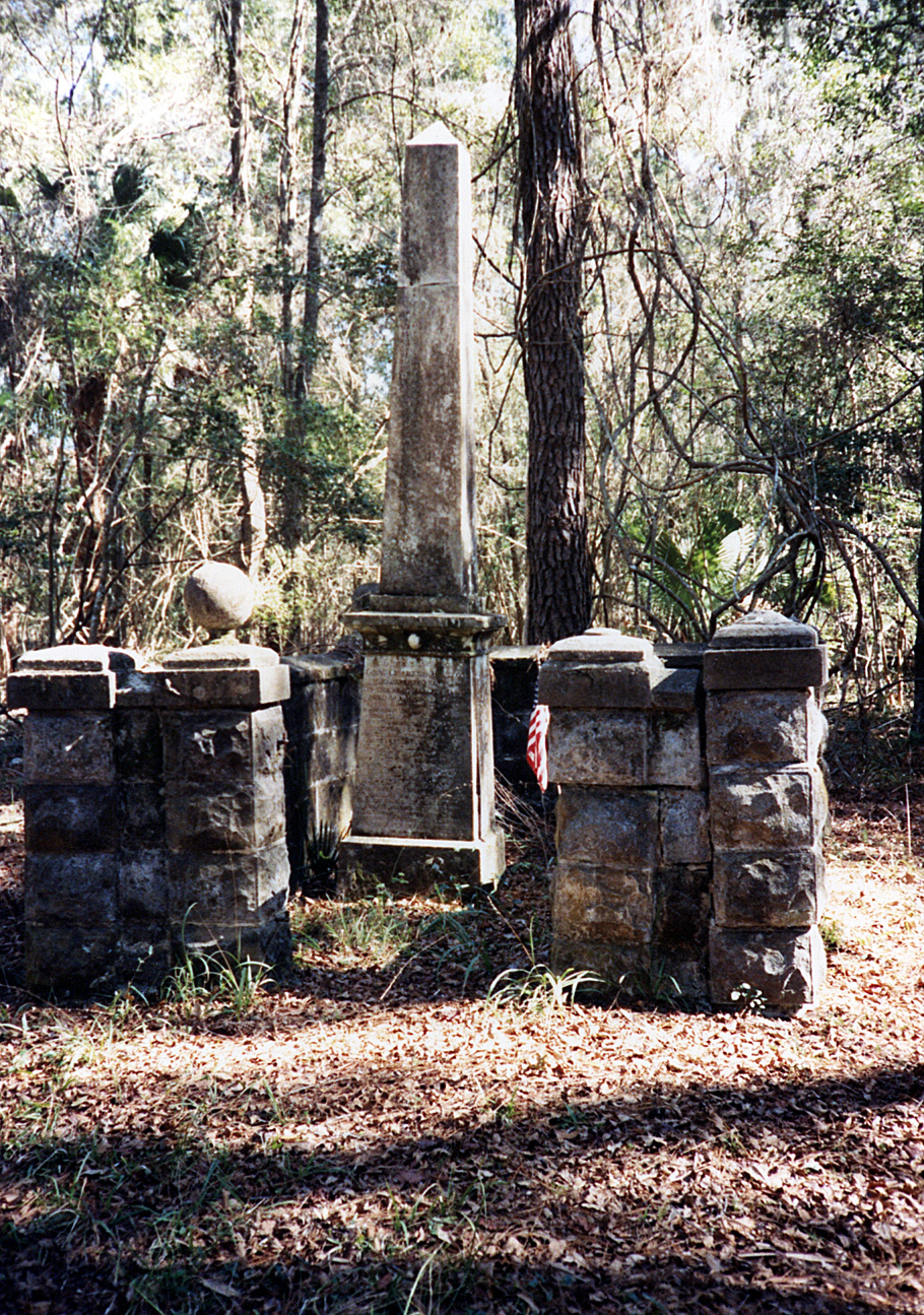 The Charles Rinaldo Floyd Monument is located at the site of the former Fairfield Plantation on Floyd's Neck in Camden County, Georgia. It was erected by the soldiers who who served under him in honor of his brilliant and distinguished military career. This photo was taken in 1989 by Marguerite M. Mathews, a Floyd descendant.